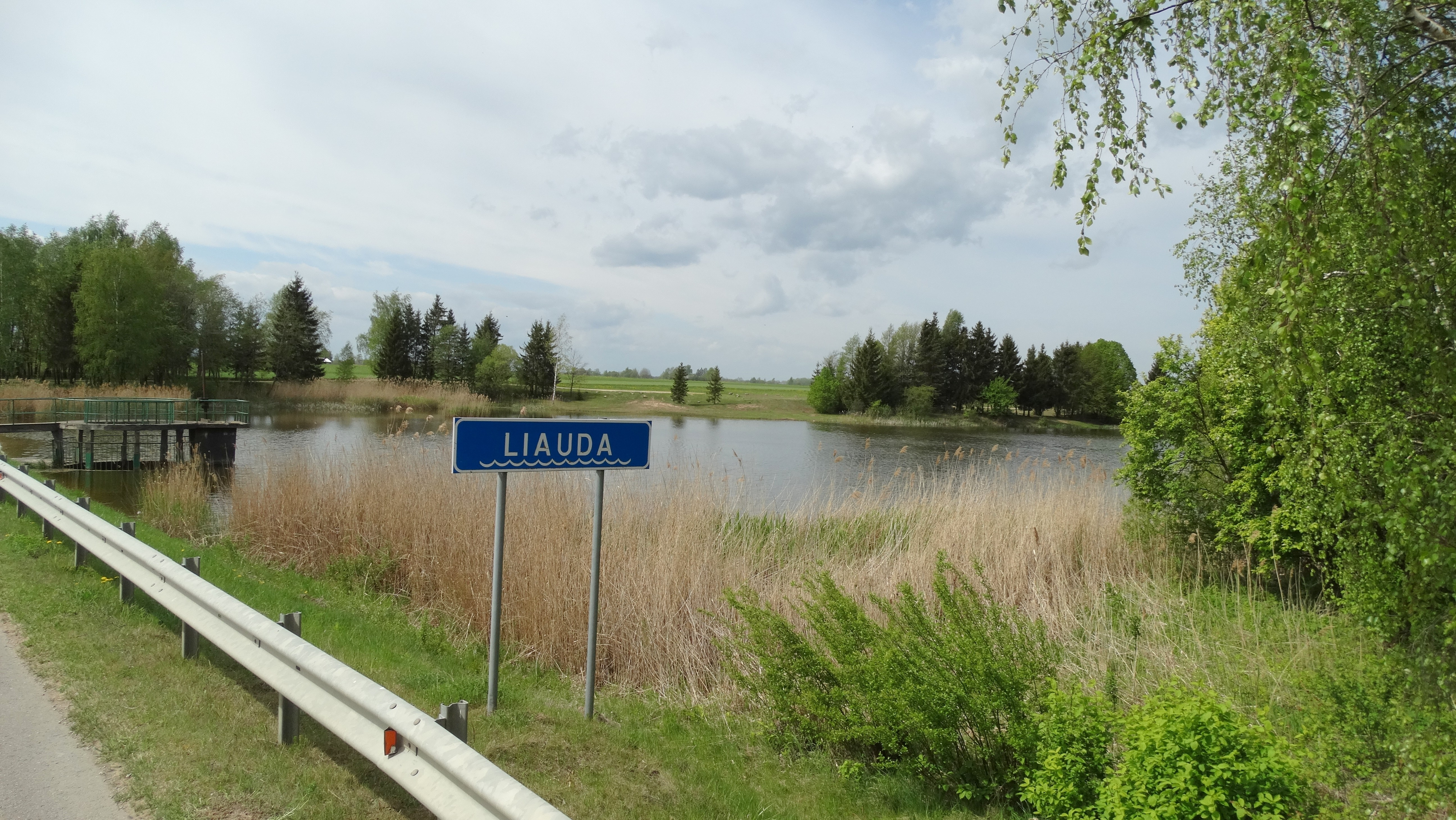 Liauda stream, Pociūnėliai, Radviliškis District, Lithuania